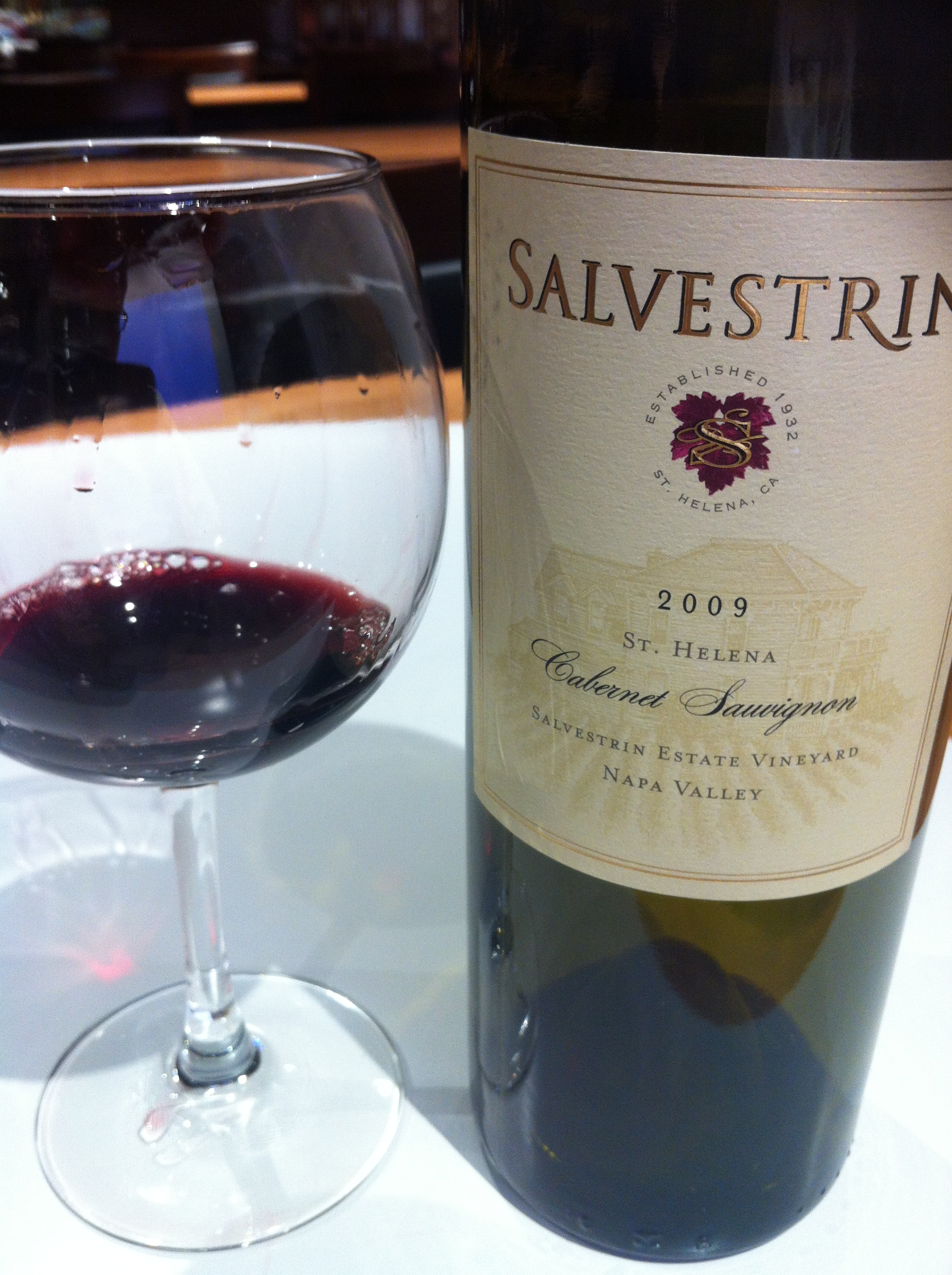 Cabernet Sauvignon from the Napa Valley wine region of St Helena